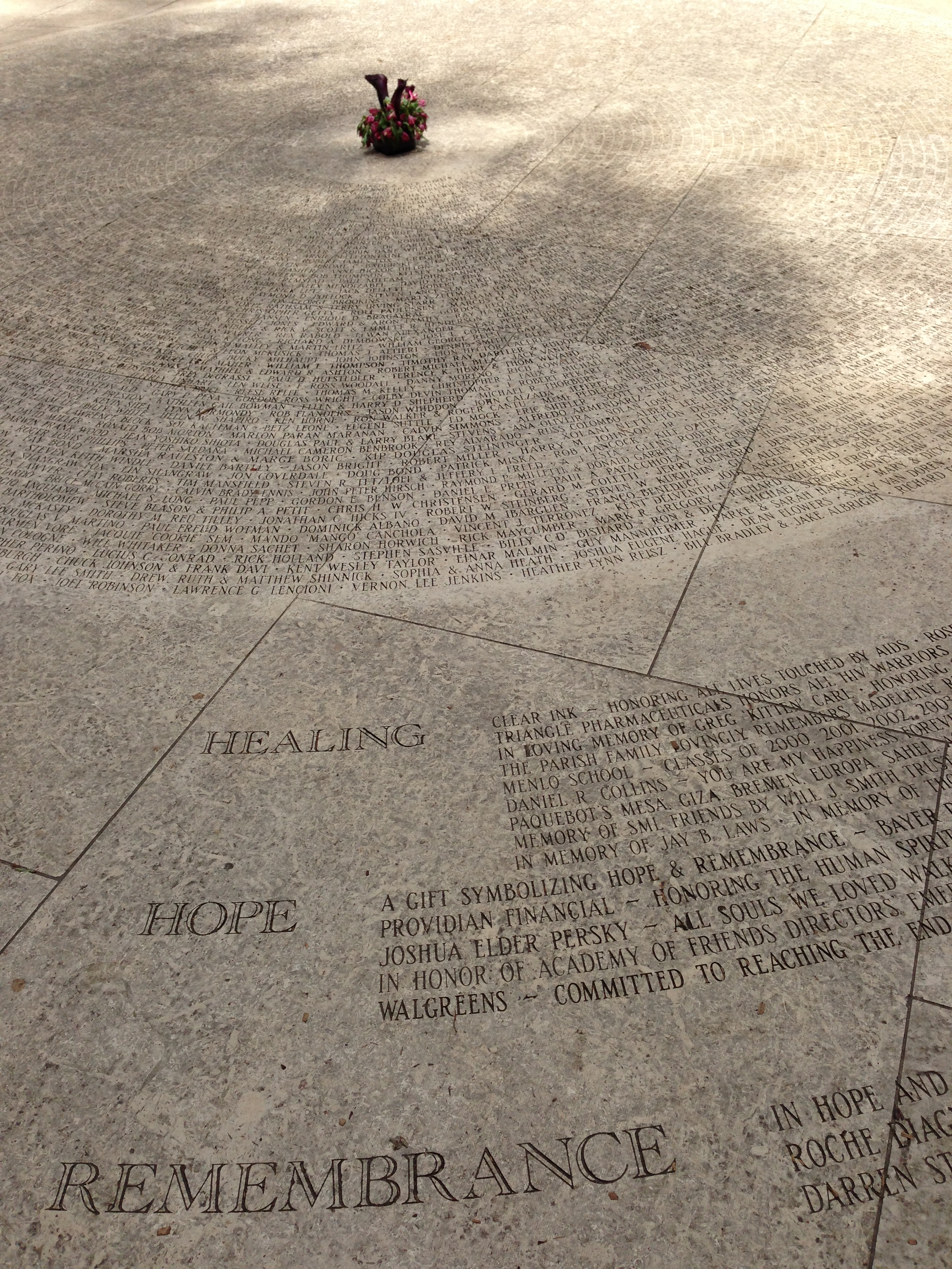 Memorial in Golden Gate Park, San Francisco, California